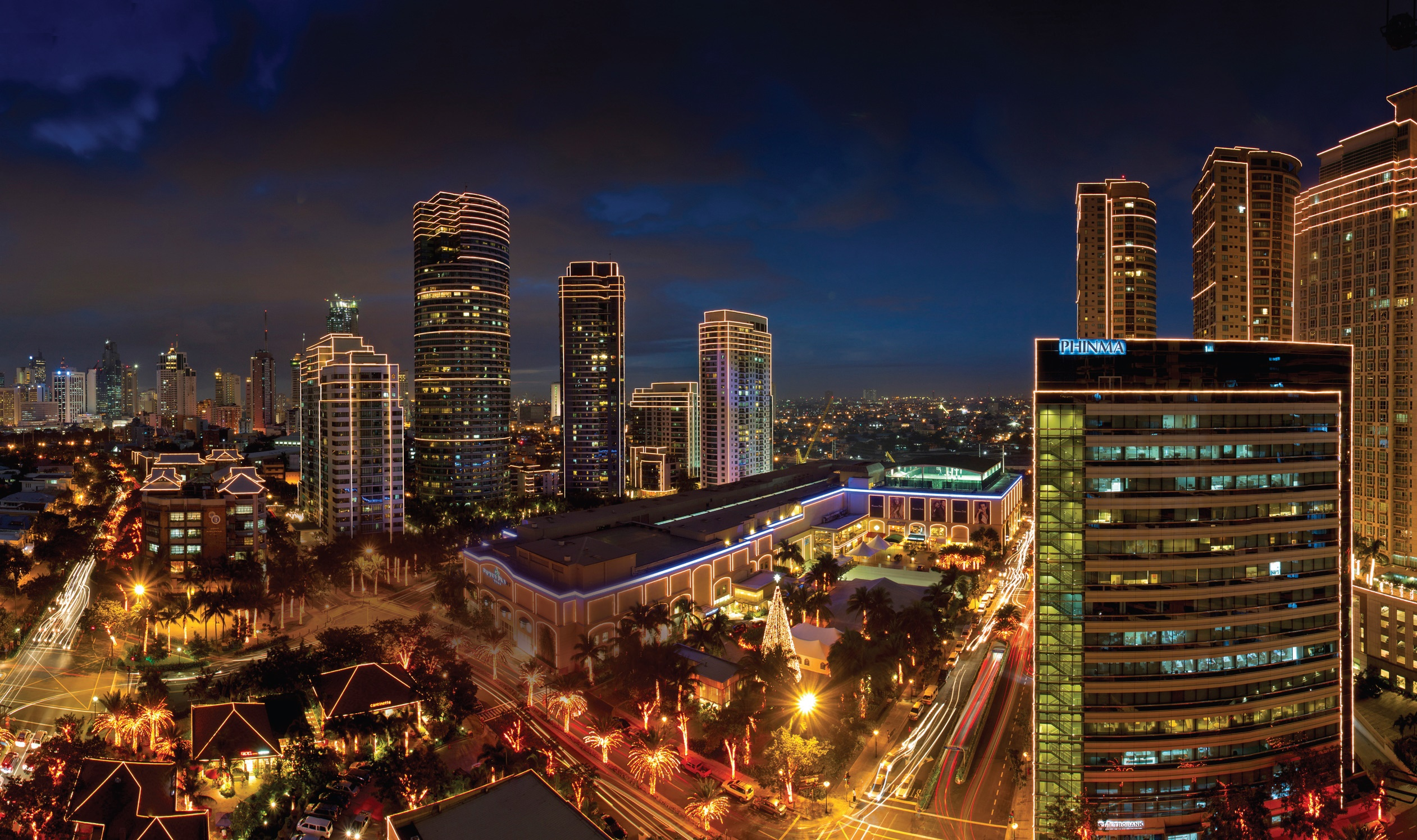 The Rockwell Center in Makati City, Philippines.